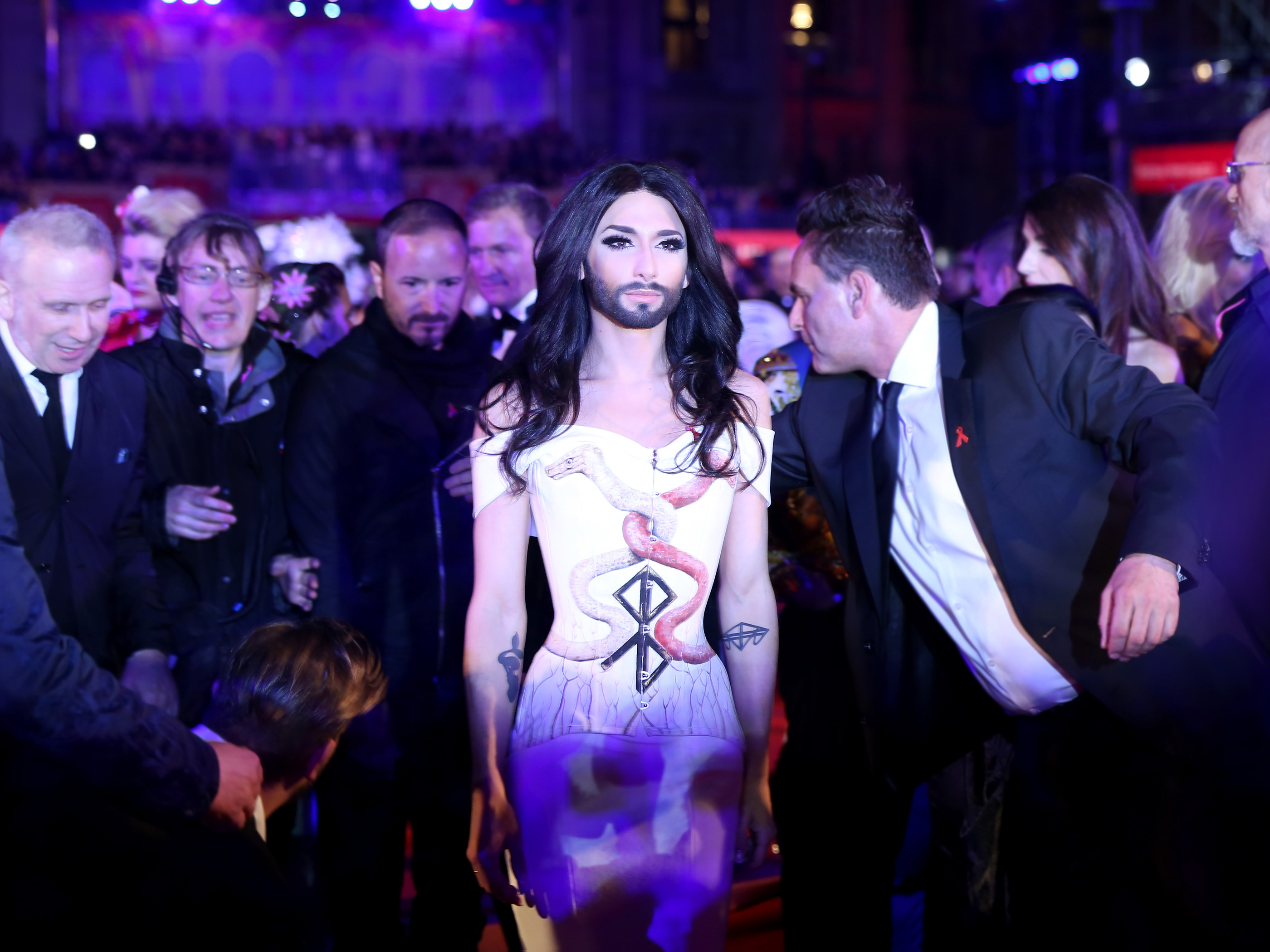 Life Ball 2014: Conchita Wurst on the red carpet on the square in front of the Rathaus (Town Hall) of Vienna, Austria.